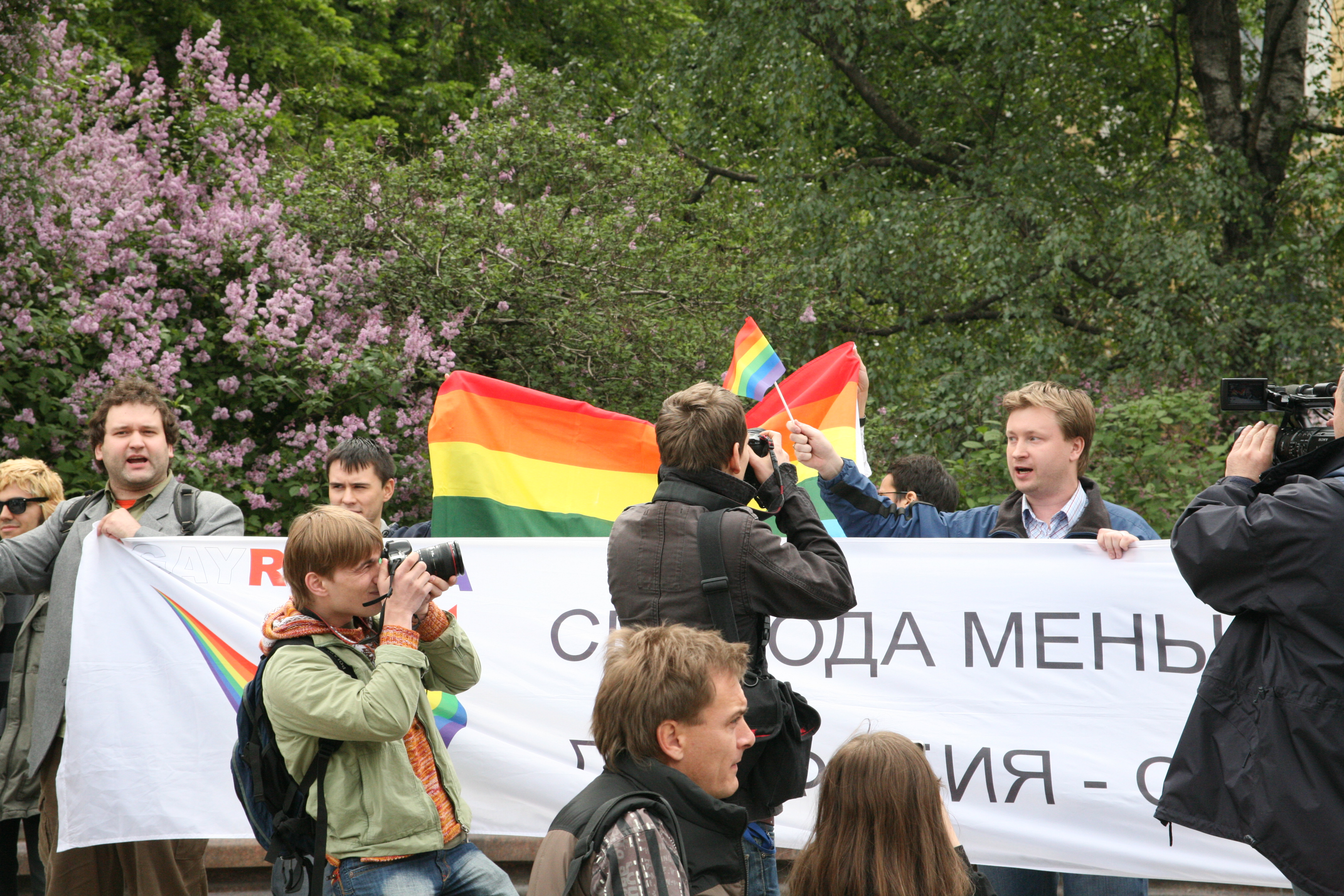 Photo of the Moscow Pride on June 1, 2009, showing one of the two events that were organized on that day in Moscow, particuarly the flashmob protest next to the Statue of Tchaikovsky, near the Conservatory of Classical Music. In the back, Nikolai Alekseev is interviewed by a TV station near the banner of the Moscow Pride that was carried.